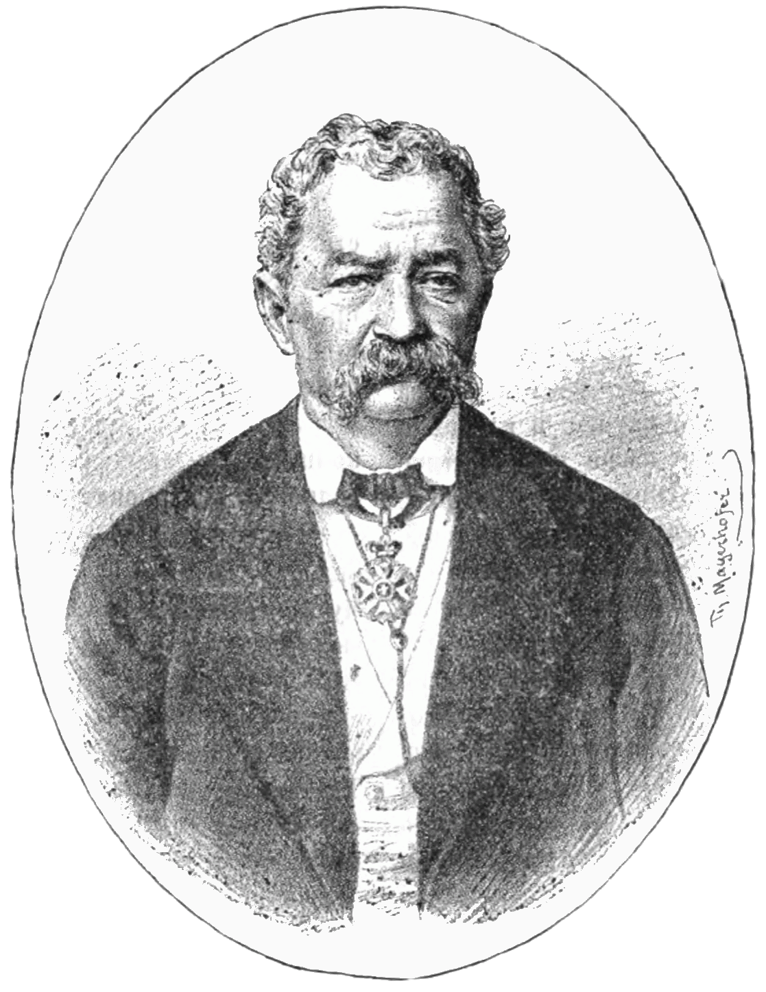 Đorđe Maletić (1816—1888), Serbian writer, literary critic and politician